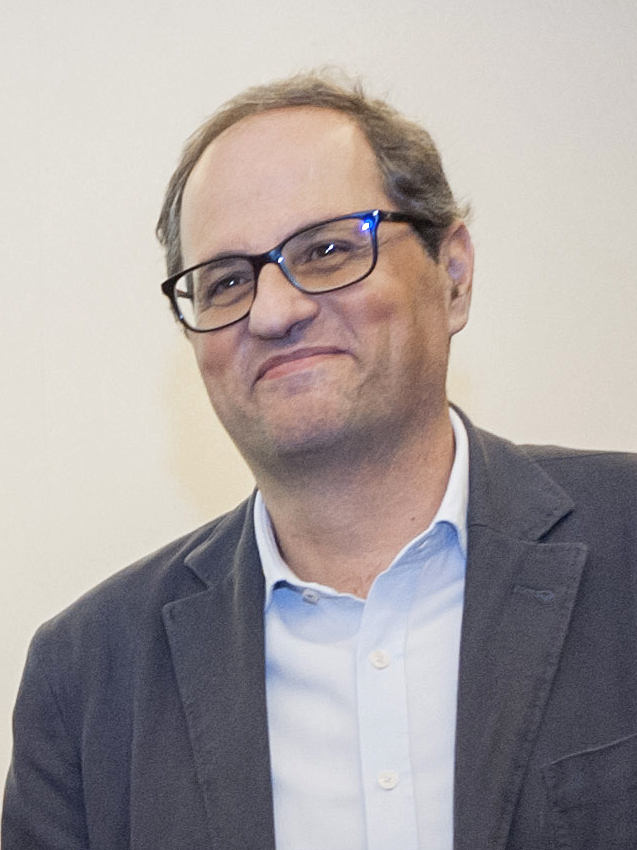 Assemblea General 2015 Òmnium Cultural +